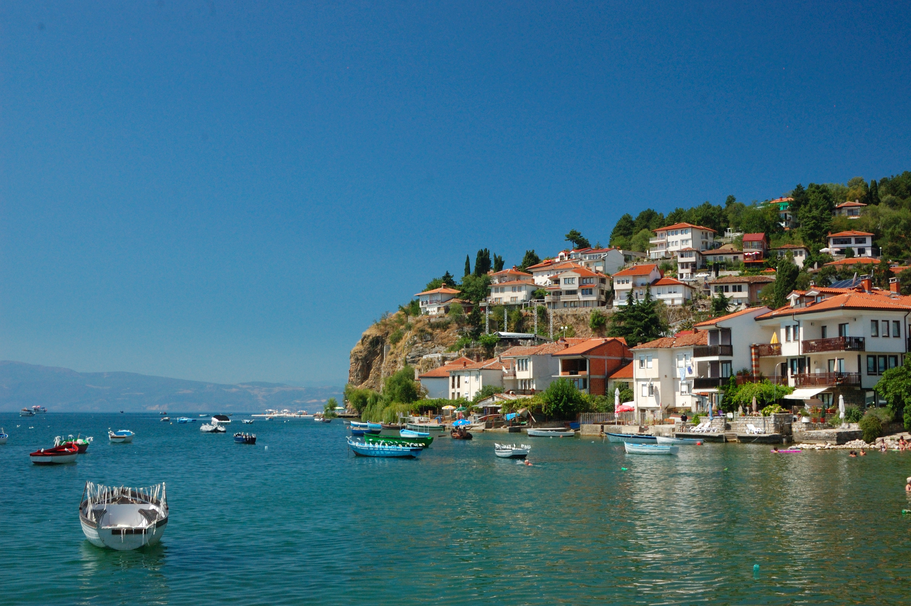 Ohrid